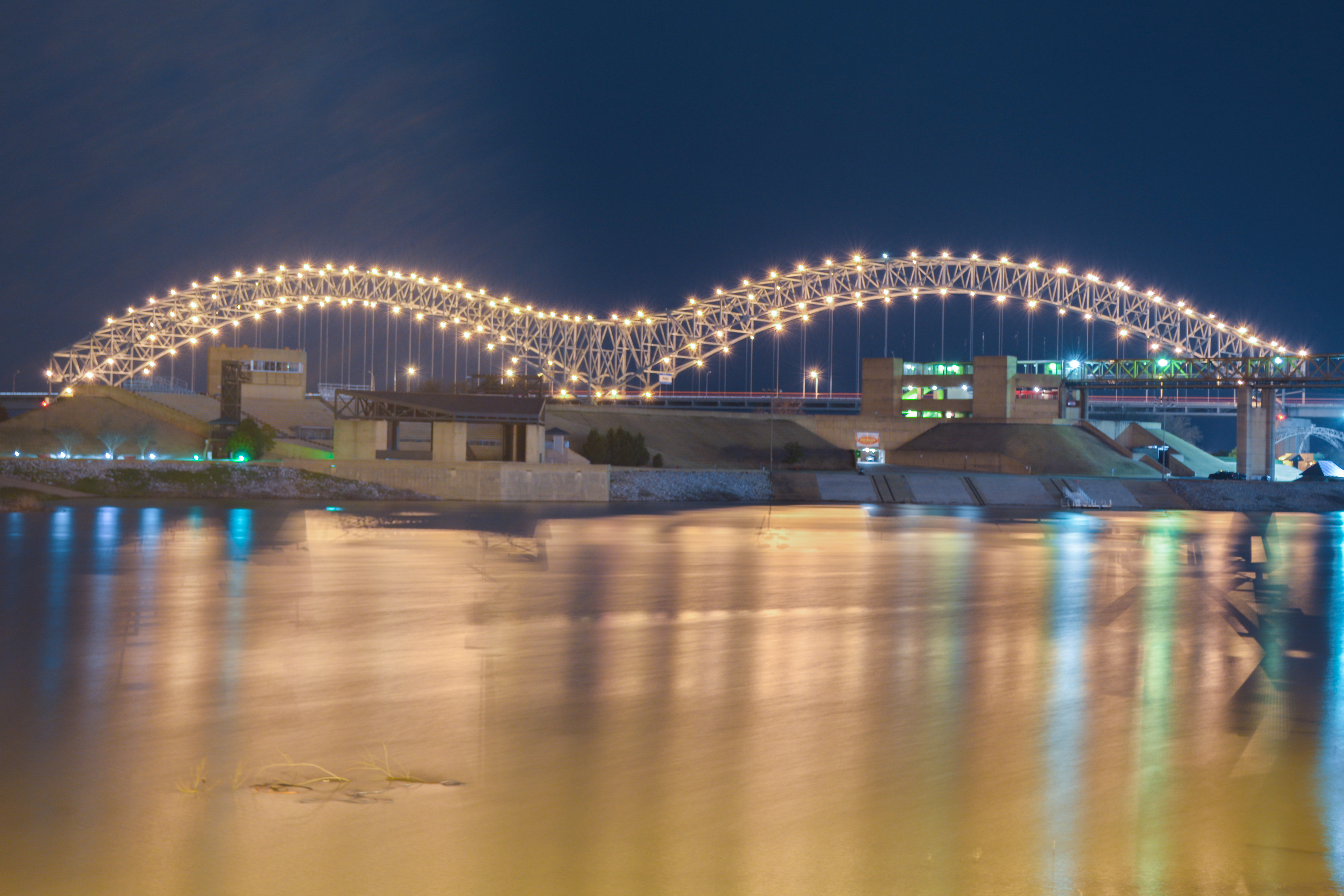 Photo of the Hernando DeSoto Bridge at night